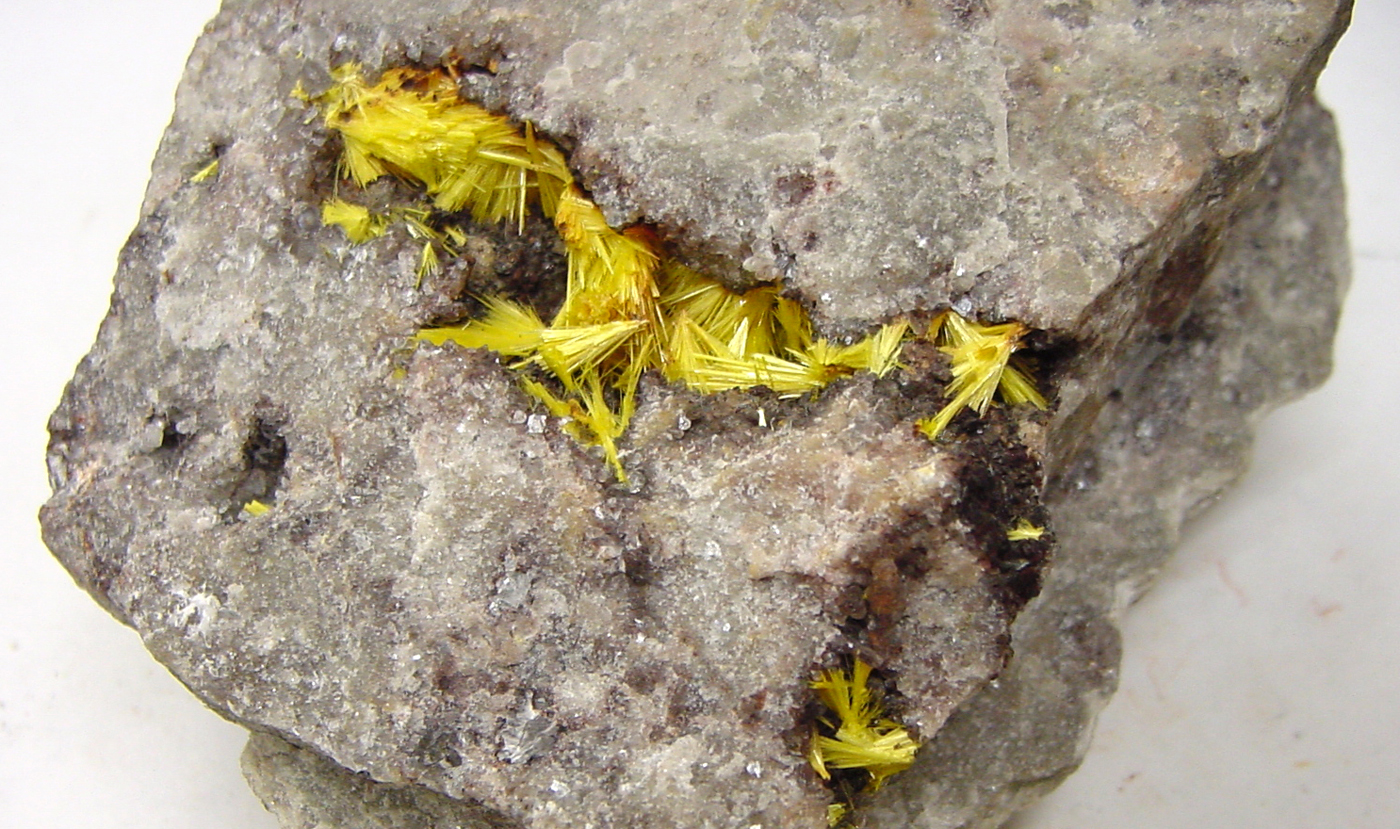 Uranophane. Mineral collection of Bringham Young University Department of Geology, Provo, Utah. Photograph by Andrew Silver. No BYU index, Ca(UO_2)_2Si_2O_7 x 6(H_2O).